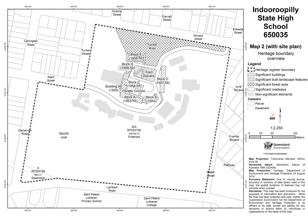 650035 - Indooroopilly State High School - map 2 (2016)